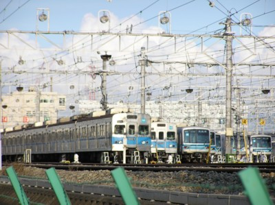 Tokyo Metro Fukagawa Depot